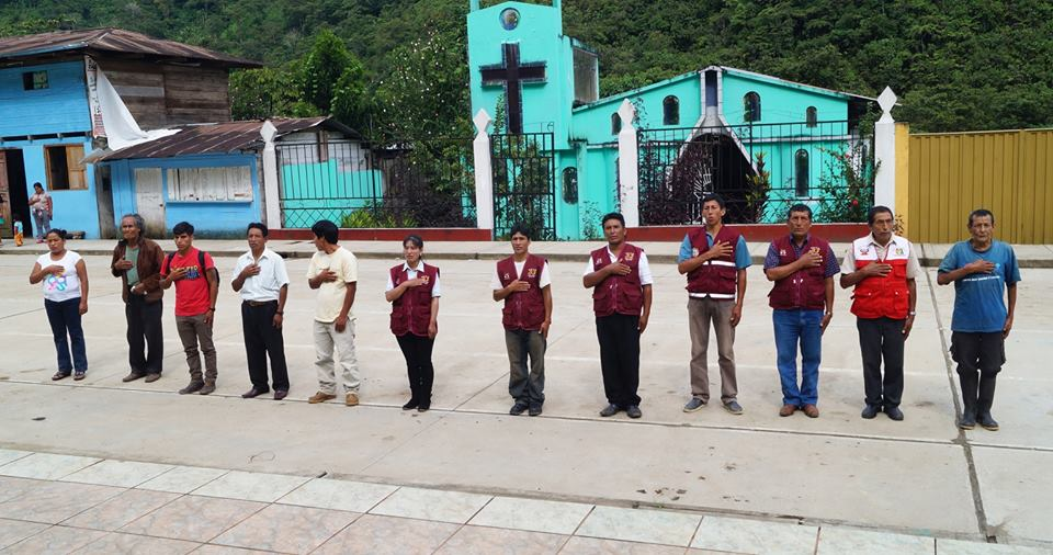 Iglesia de Mariposa